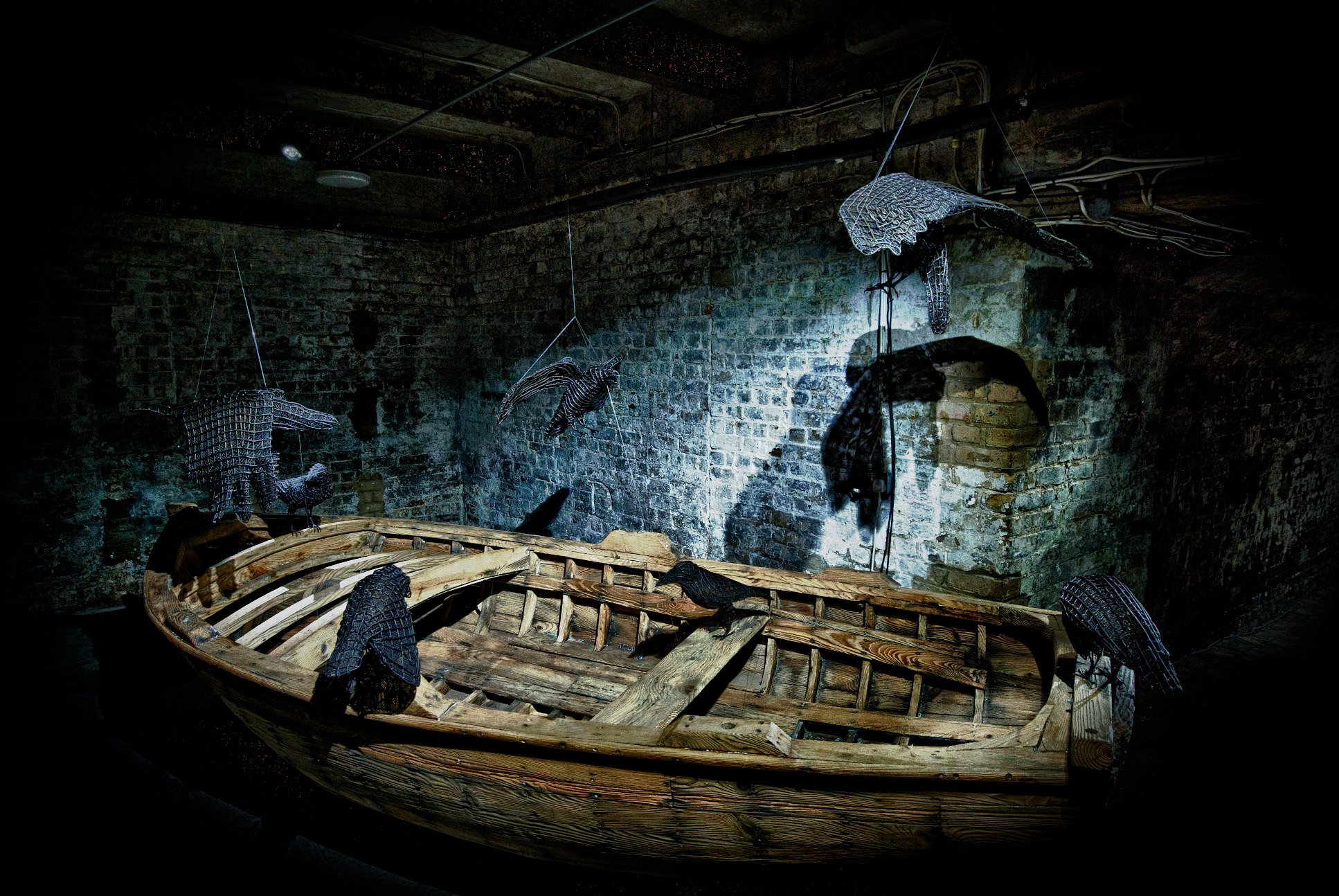 St Pancras Parish Church Crypt: NAVIGATING IN THE DARK PART III by Kalliopi Lemos